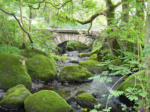 Hawk Bridge over the River Lickle